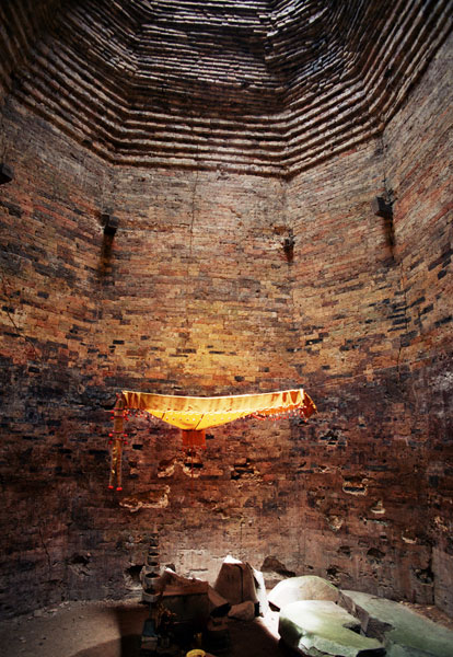 N7 Sanctuary. Sambor Prei Kuk. Cambodia